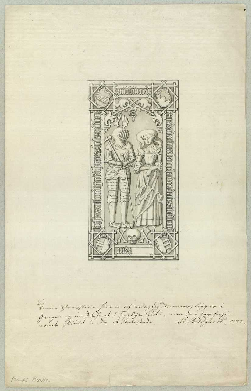 Gravestone of Mads Eriksen Bølle and Birte (Birgitte) Daa in Tureby Kirke in Denmark